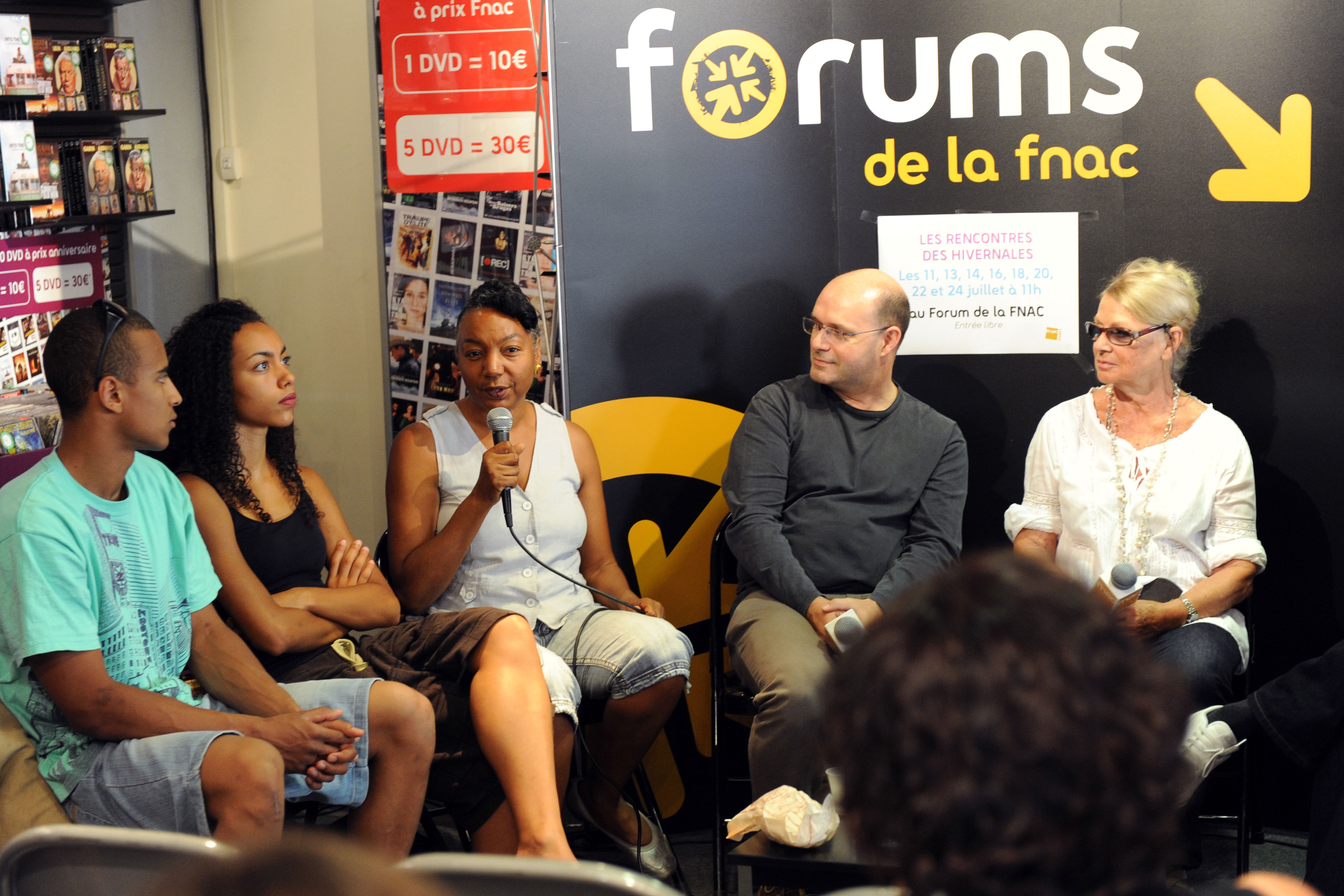 Avignon 2009